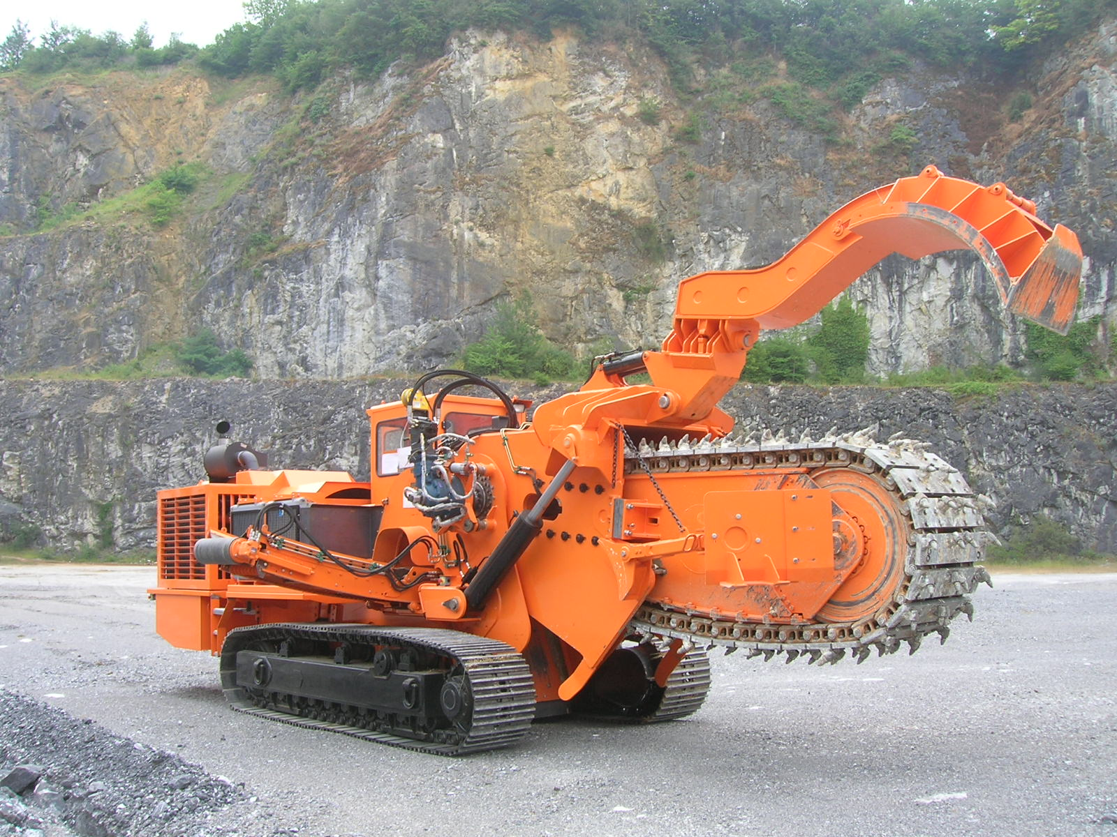 SMC 400 C Marais chain trencher